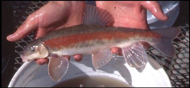 Catostomus warnerensis USFWS photo